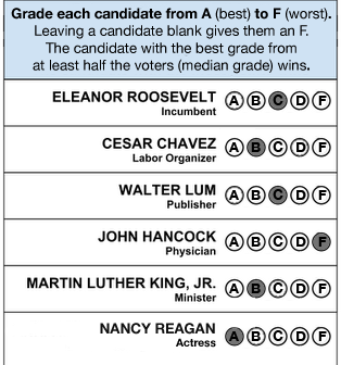 A sample ballot showing how one might vote in a hypothetical election using the majority judgment electoral system.